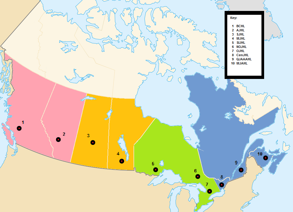 Locations of regions and leagues in the Canadian Junior Hockey League